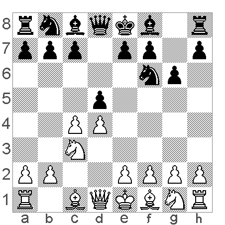 chess diagram Grunfeld defence Source: CBlight + my processing